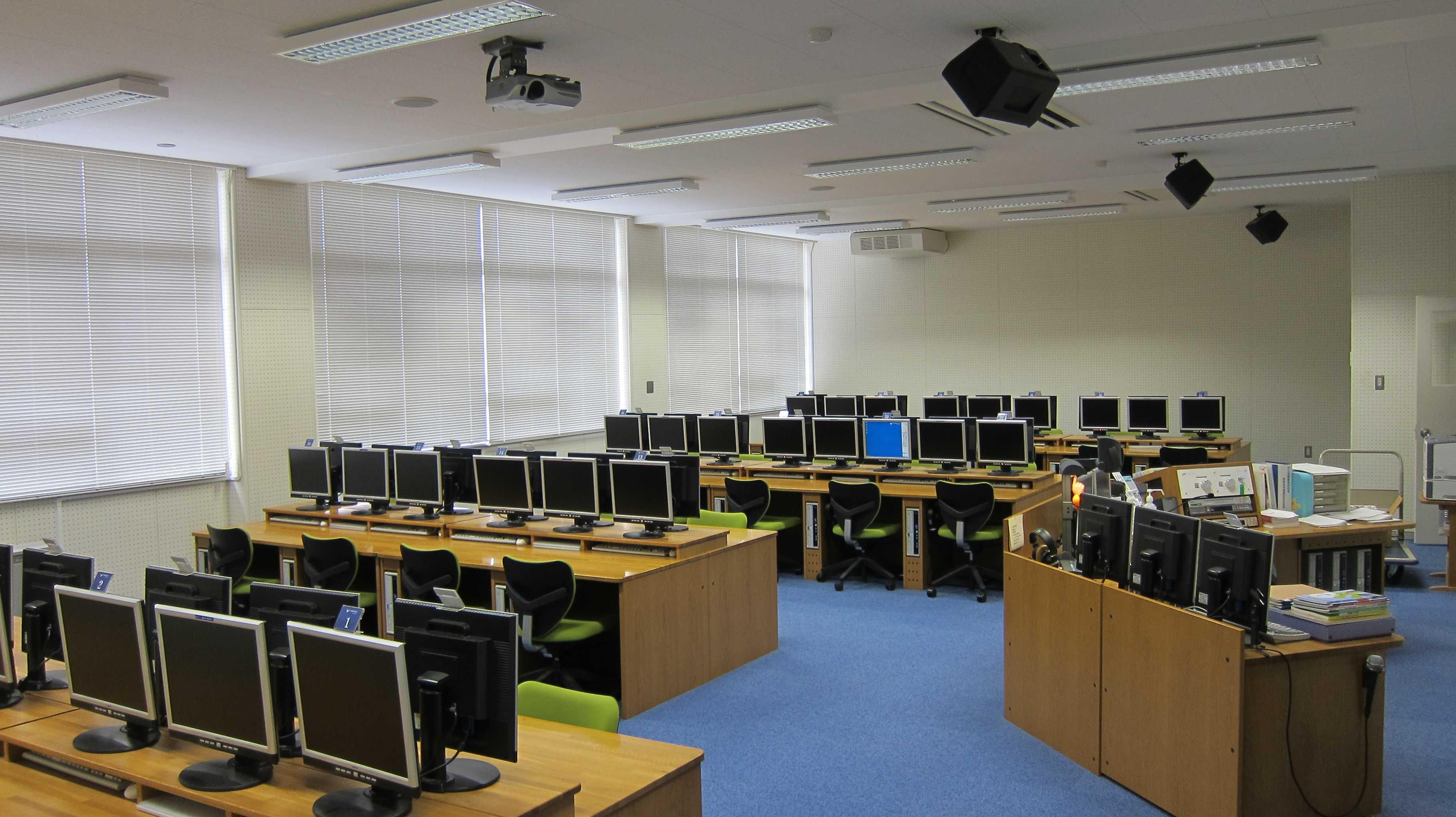 Japanese High school Language Lab left view